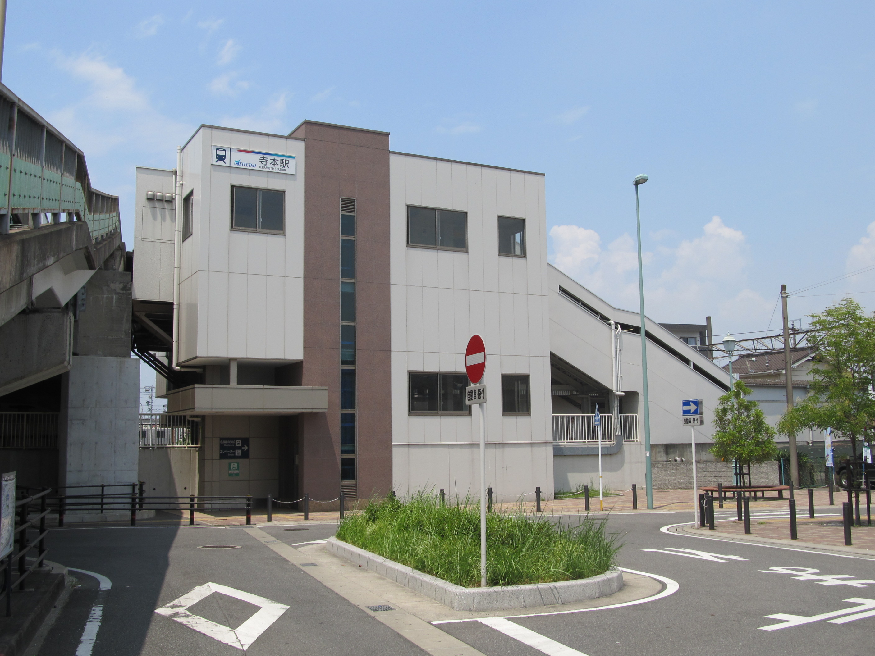 Nagoya Railroad Tokoname Line Teramoto Station Plaza